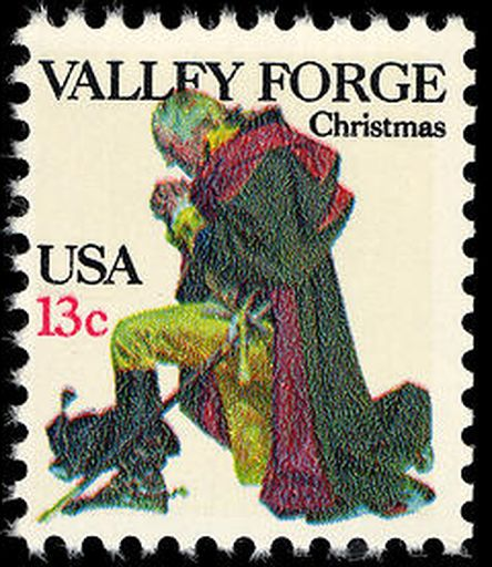 US Postage stamp: Washington, 1977, 13c